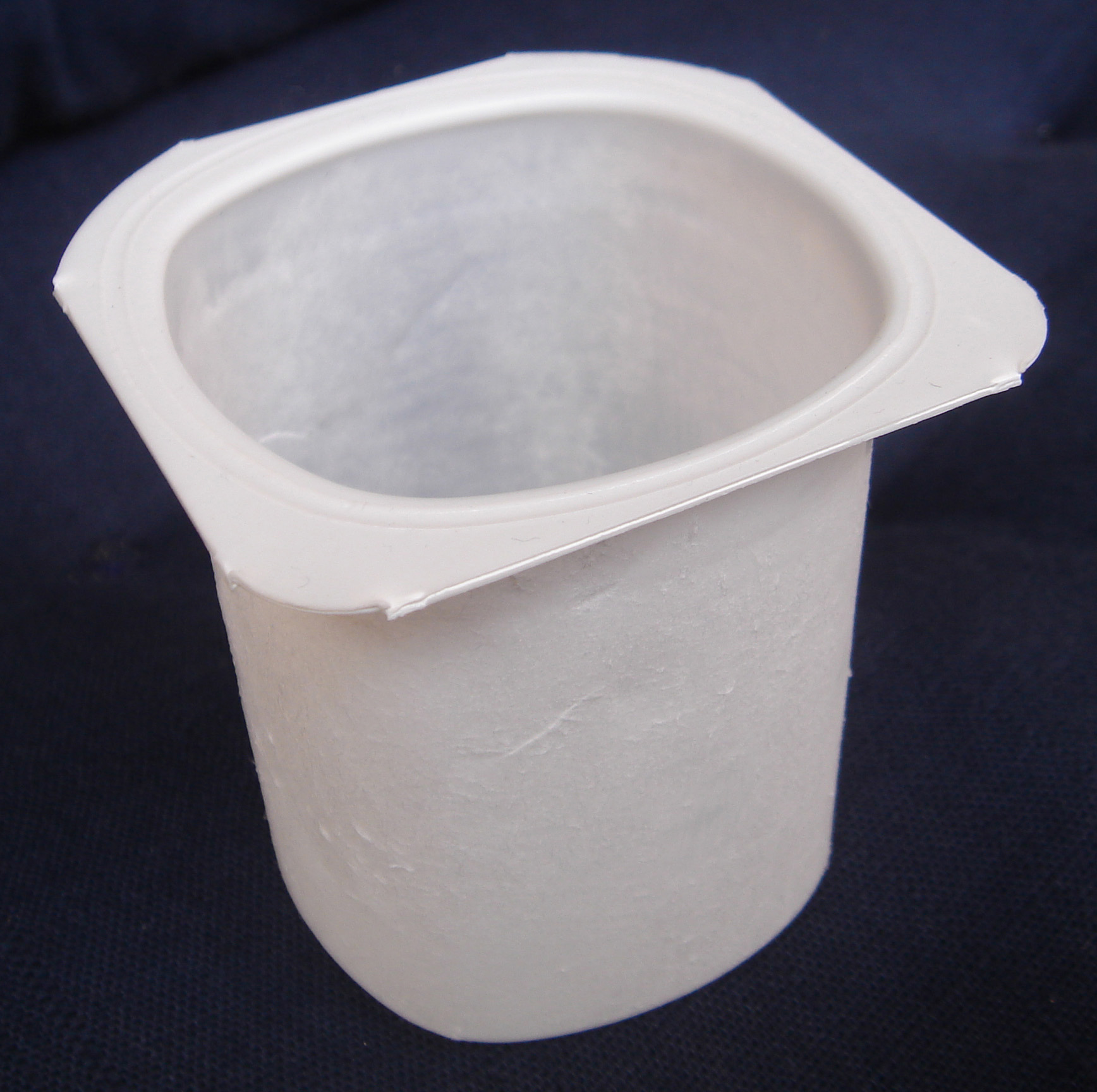 Yoghurt pot made of polystyrene.